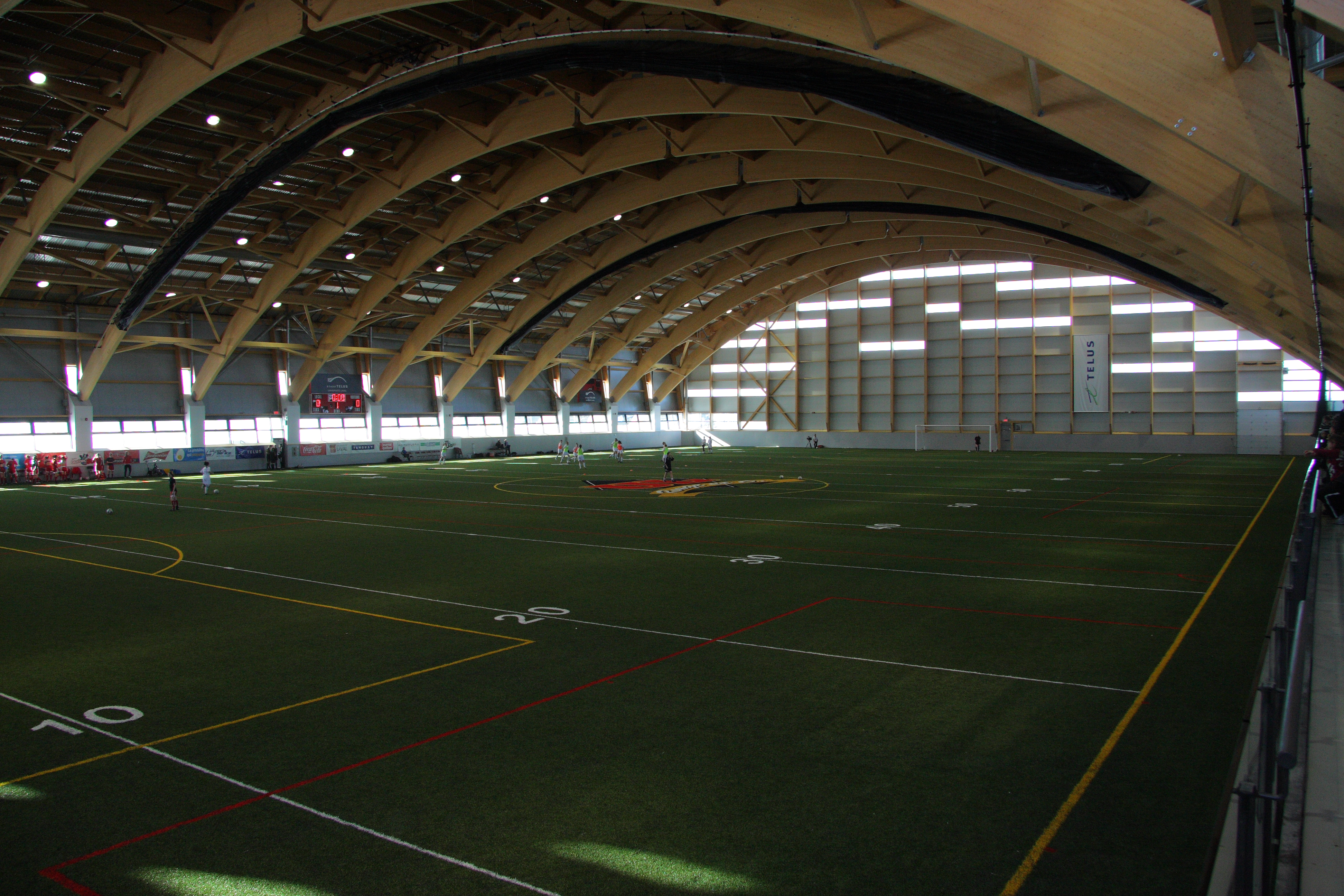 TELUS-Université Laval Stadium of Université Laval during a women's soccer game between Laval Rouge et Or and Montreal Carabins. The wooden-frame roofing of glulam is supported by 13 arches.